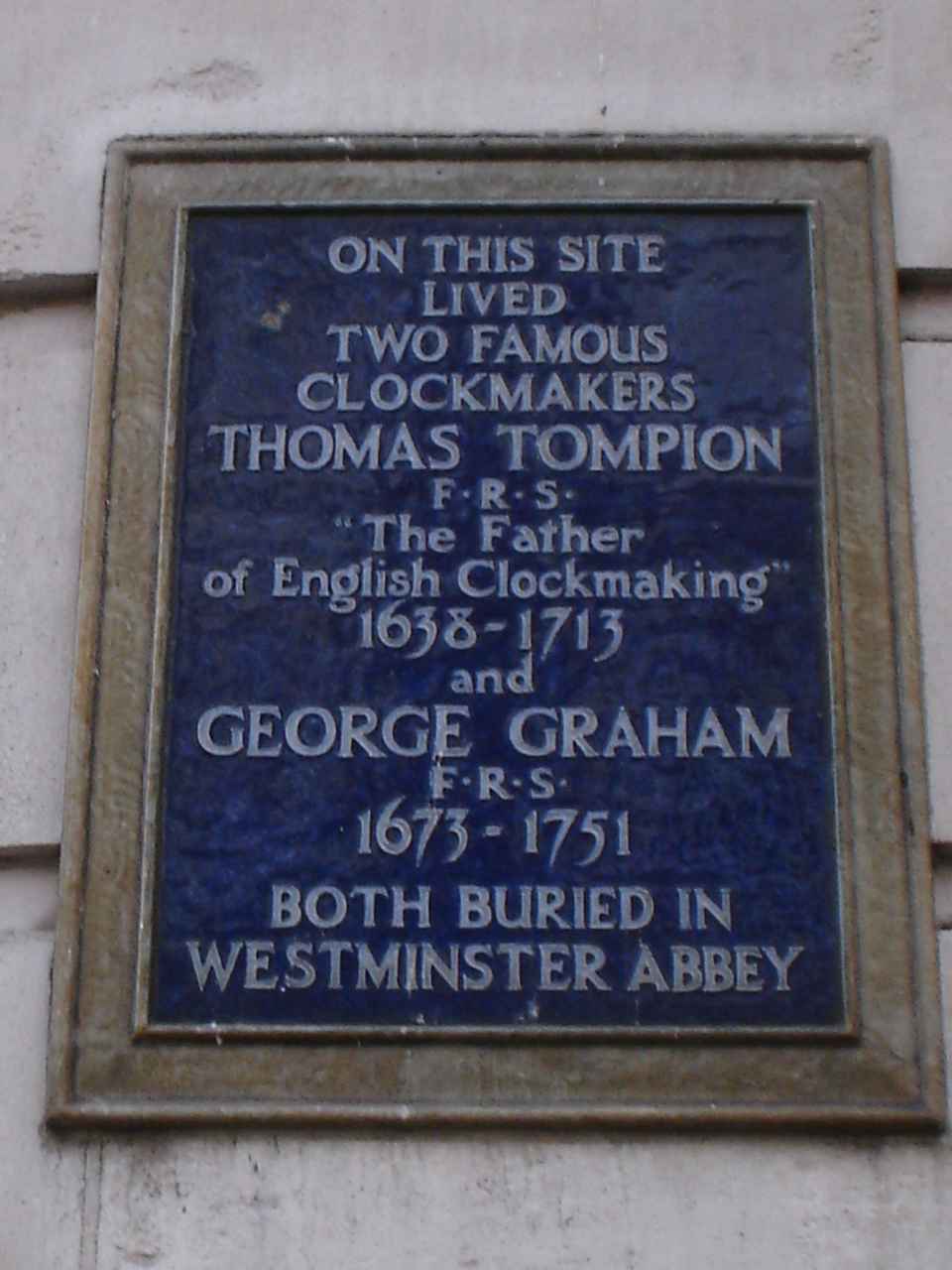 Plaque in Fleet Street, London, commemorating clockmakers Thomas Tompion and George Graham. This image represents an Open Plaques entry #5128.